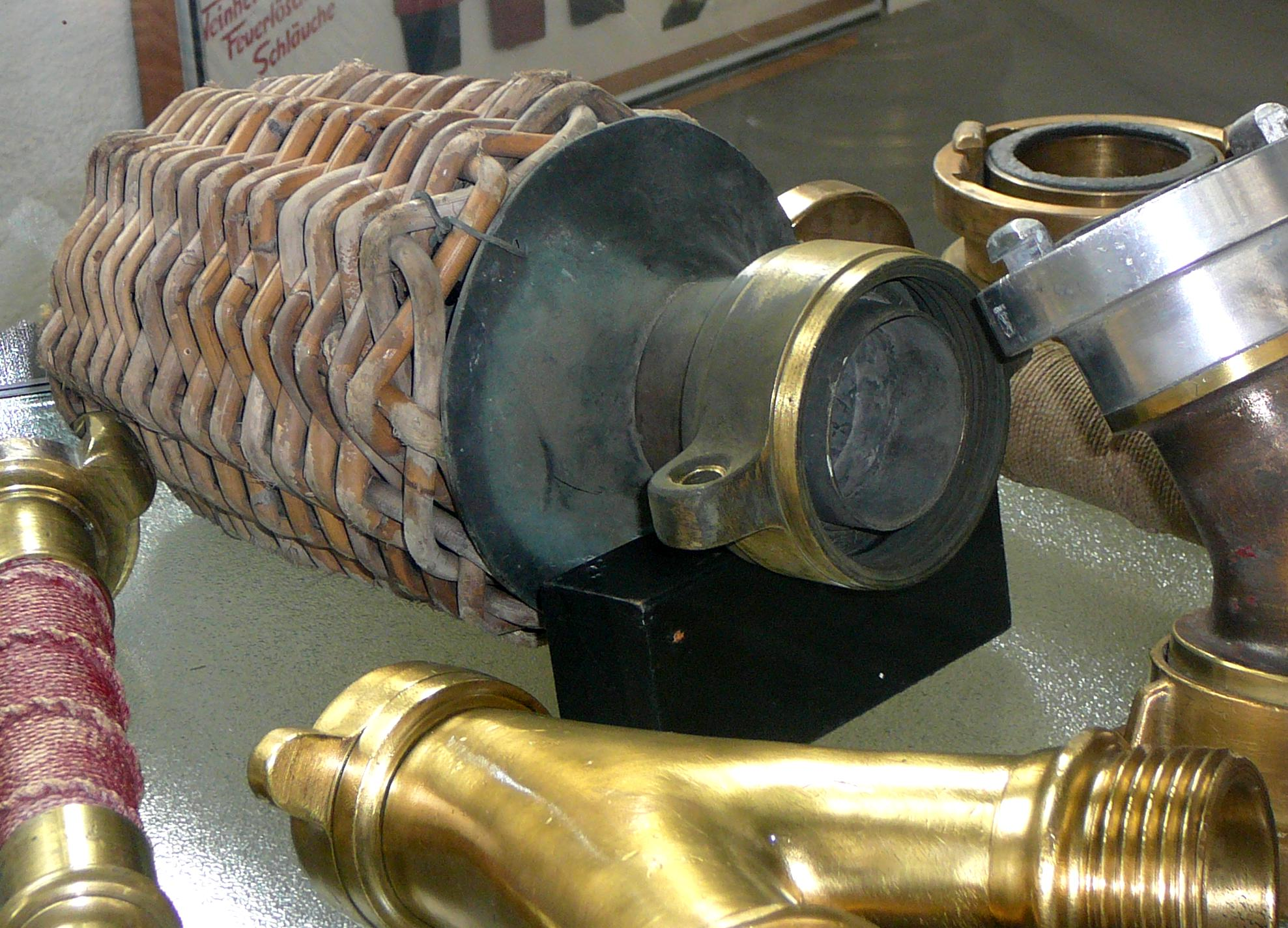 Historical strainer made from brass and willow; used by the german fire service when pumping from open waters. Definitely dates back to before 1936, when Storz couplings were made a standard - this strainer still has a threaded coupling. Historischer Saugkorb aus Weidengeflecht und Kupfer. Wurde definitiv vor der Einführung der Storz-Kupplung 1936 hergestellt. Fotografiert im Stuttgarter Feuerwehrmuseum ( 2007